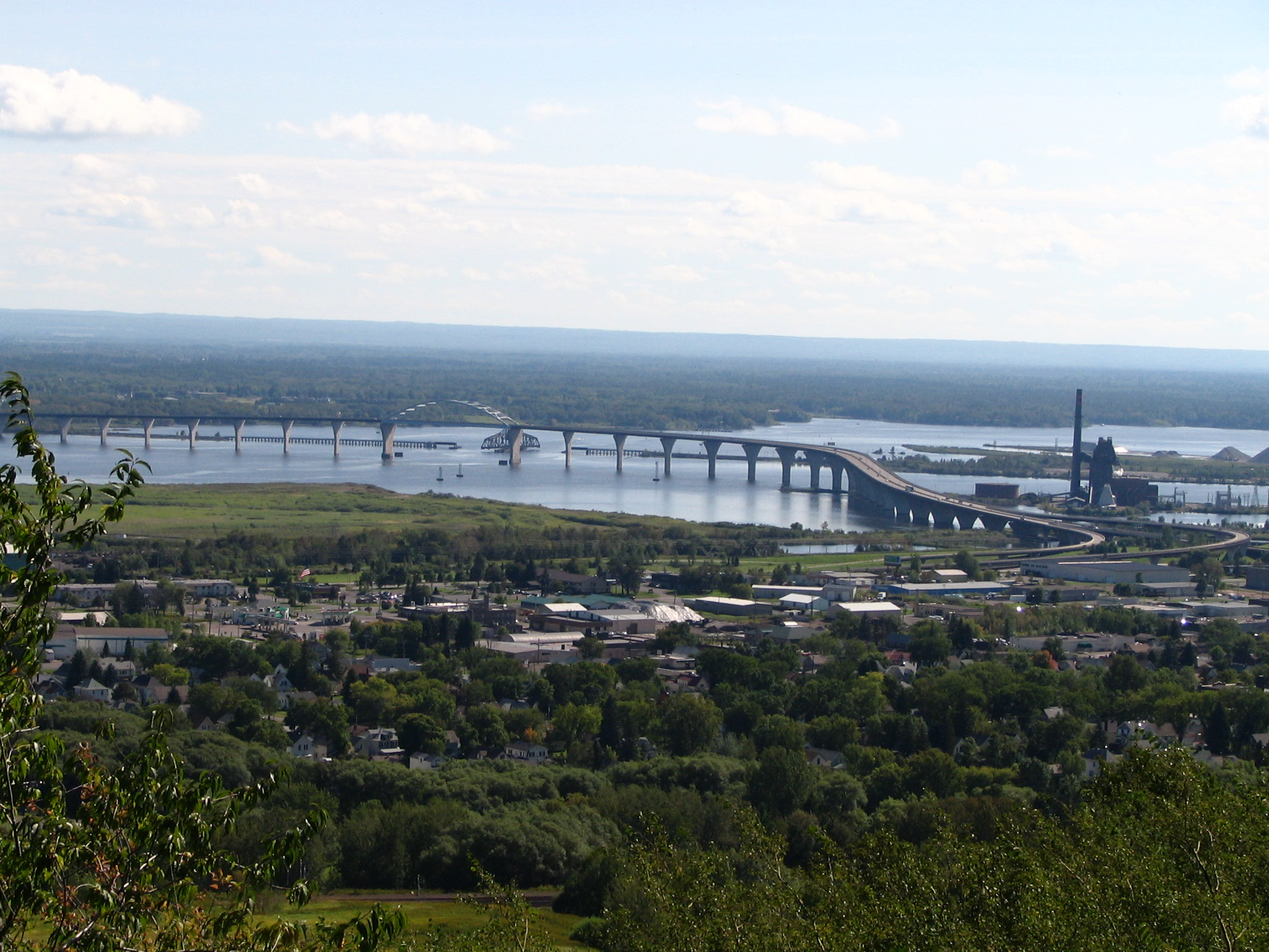 Richard I. Bong Memorial Bridge in Duluth, Minnesota and Superior, Wisconsin taken on September 11, 2004. Douglas J. McLaughlin